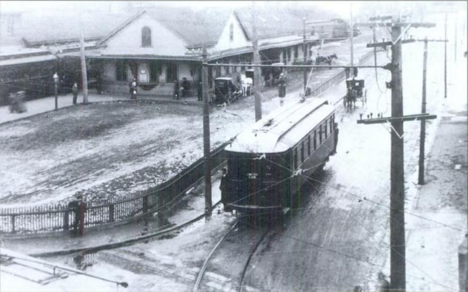 A Norwich & Worcester Railway car at Westerly station. This is the old depot, which was replaced in 1912 by the modern stone station.